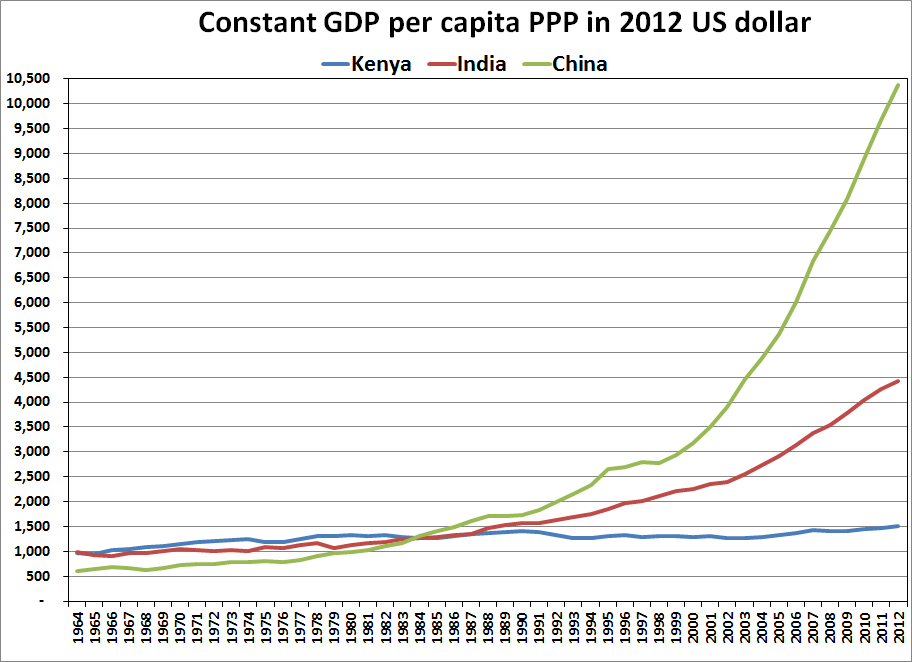 Kenya's GDP per capita since independence